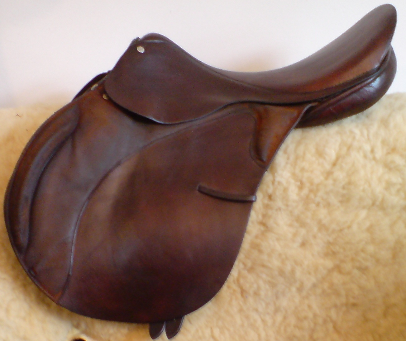 English jumping saddle (by Turf and Travel)